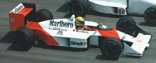 Ayrton Senna driving for McLaren at the 1988 Canadian Grand Prix.